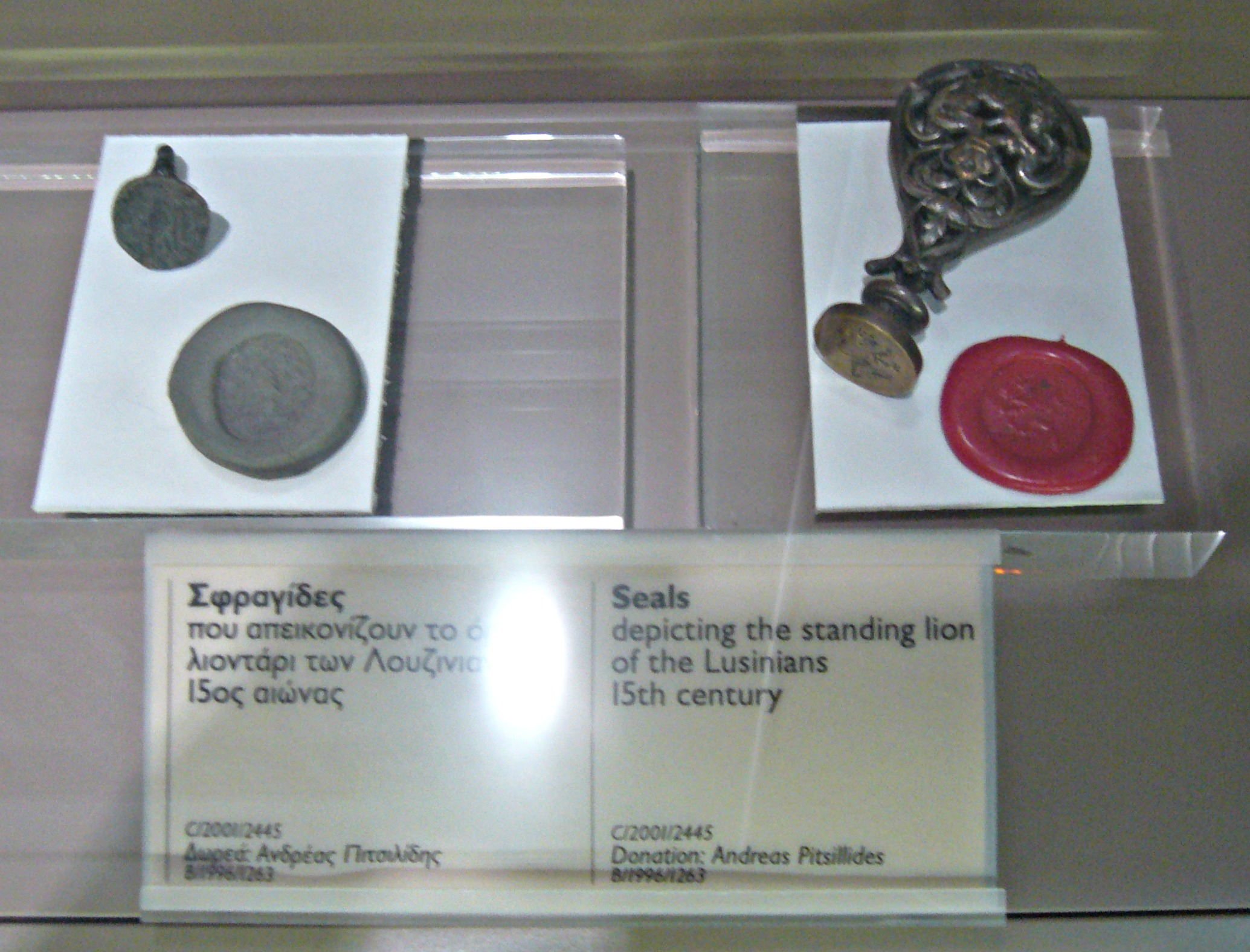 Seals depicting the standing lion of the Lusinians (15 century) - Leventis Municipal Museum, Nicosia, Cyprus